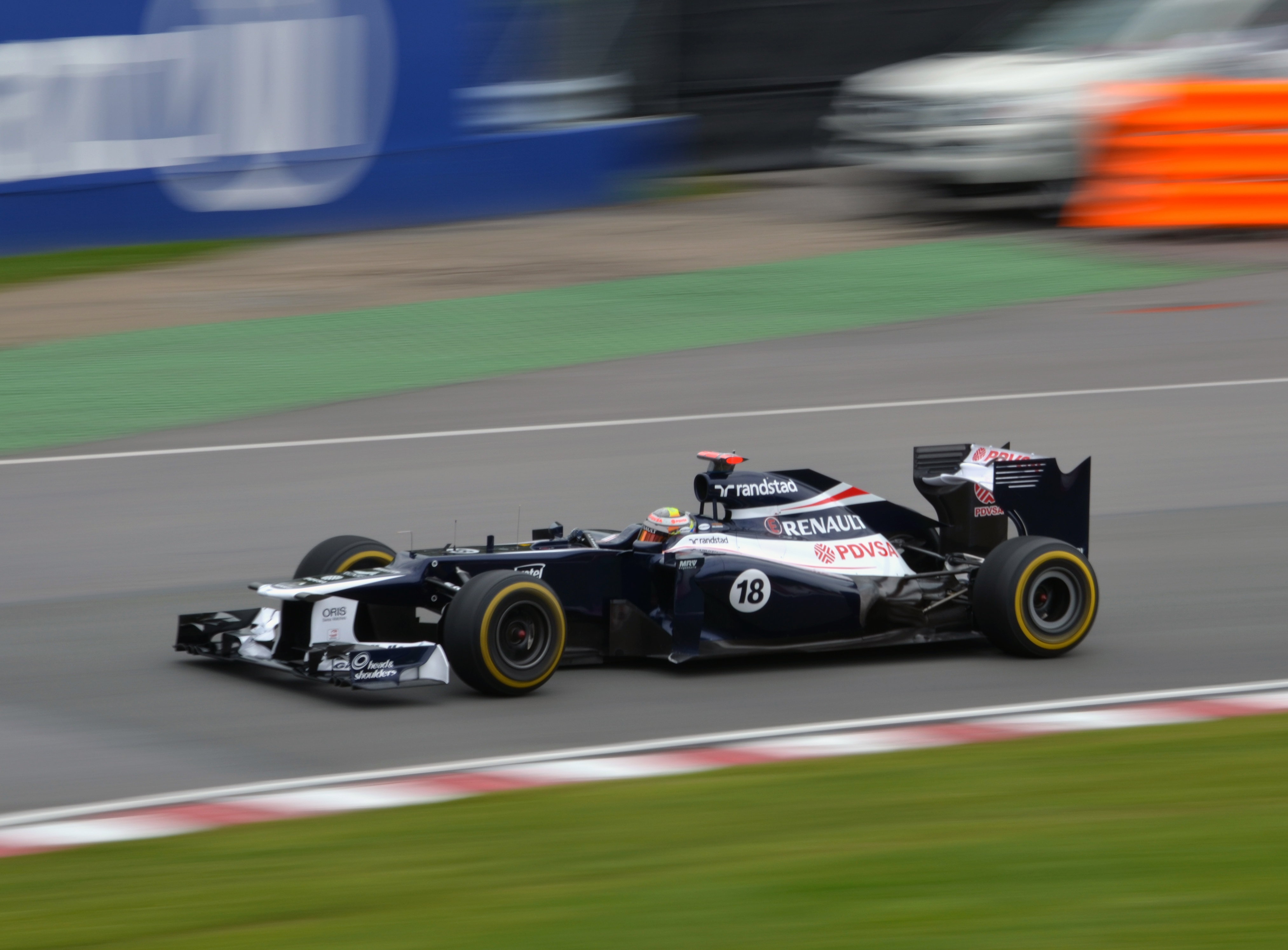 Pastor Maldonado in the Williams - Renault FW34 at turn 9 of Circuit Gilles Villeneuve during first practice for the 2012 Canadian Grand Prix